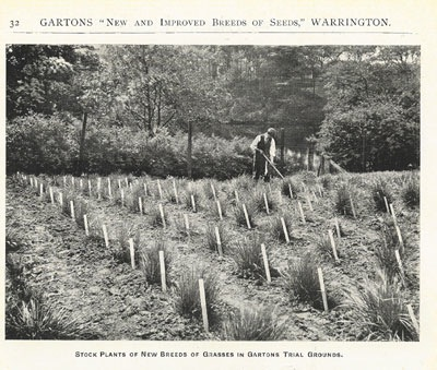 Grass plant trials, Gartons Limited plant breeding station, near Warrington